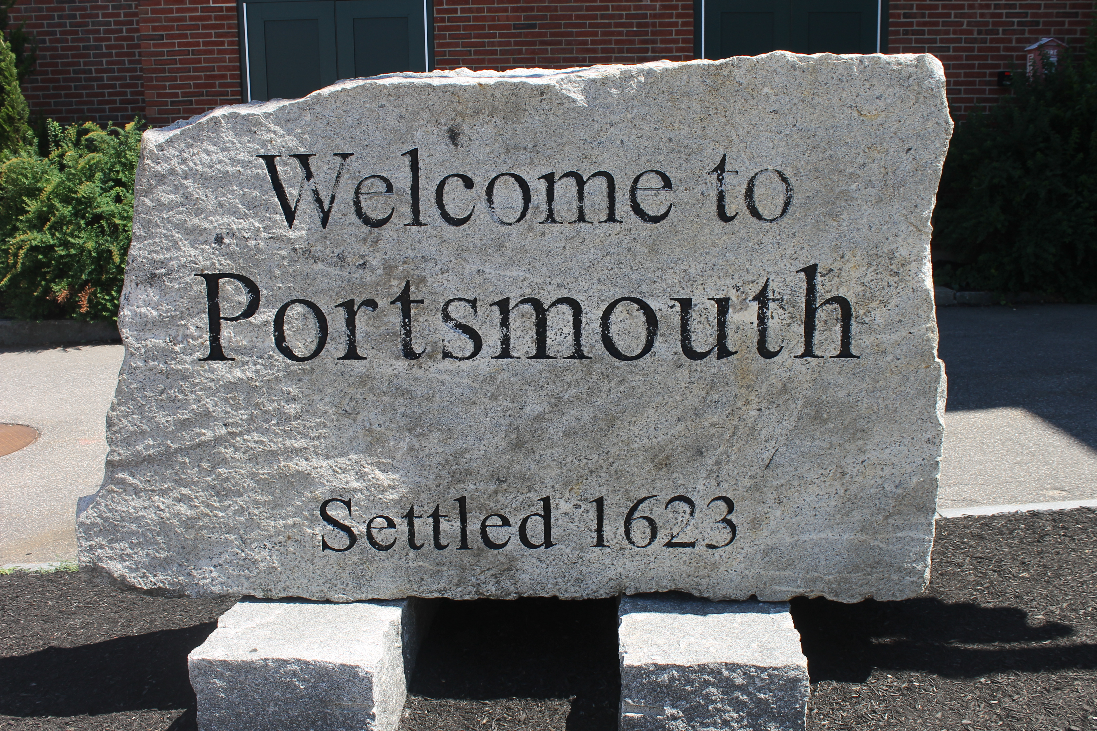 I took photo of Portsmouth, NH, welcome sign with Canon camera.